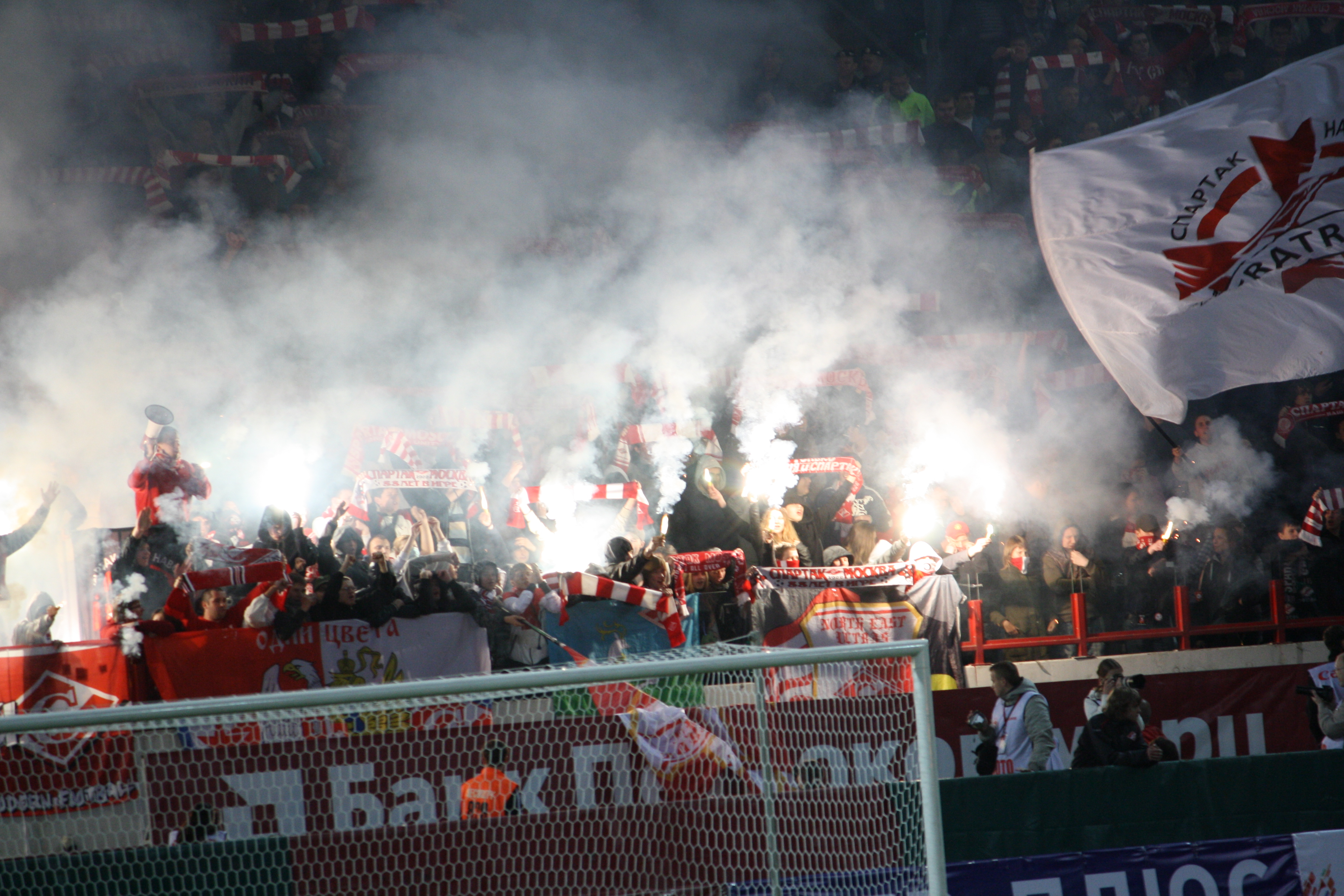 Spartak Moscow supporters